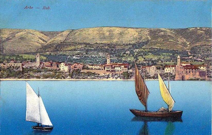 Arbe/Rab